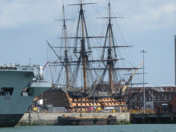 HMS Victory in drydock at Portsmouth Harbor, UK.